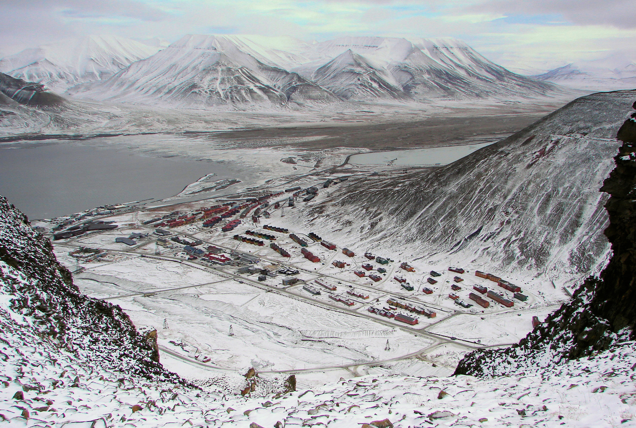 A view of "downtown" Longyearbyen, Adventfjorden (sea) and Adventdalen (valley), seen from Platåberget (the Plateau Montain) in September, the day after the first snowfall of the season.